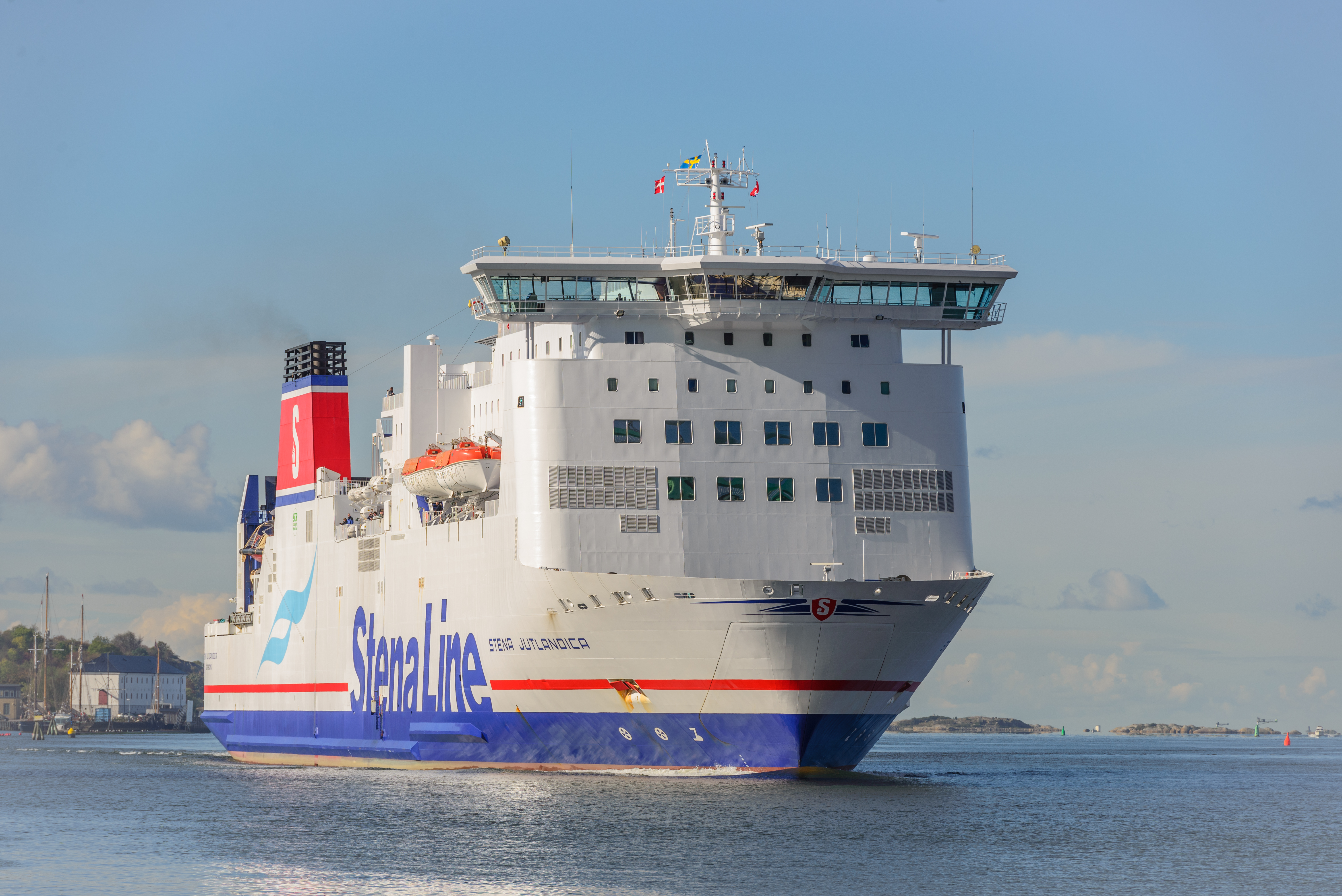 Stena Jutlandica arrives at Gothenburg.